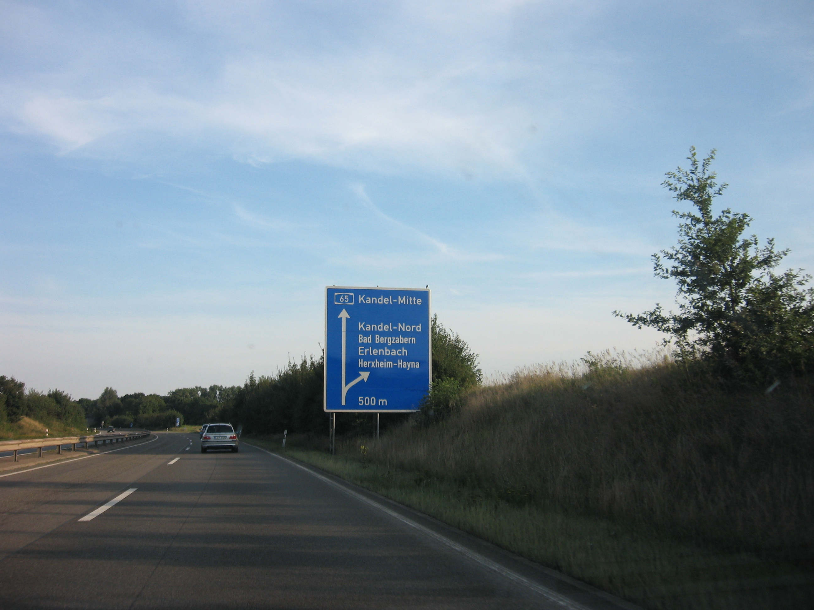 Bundesautobahn 65 (Kandel)